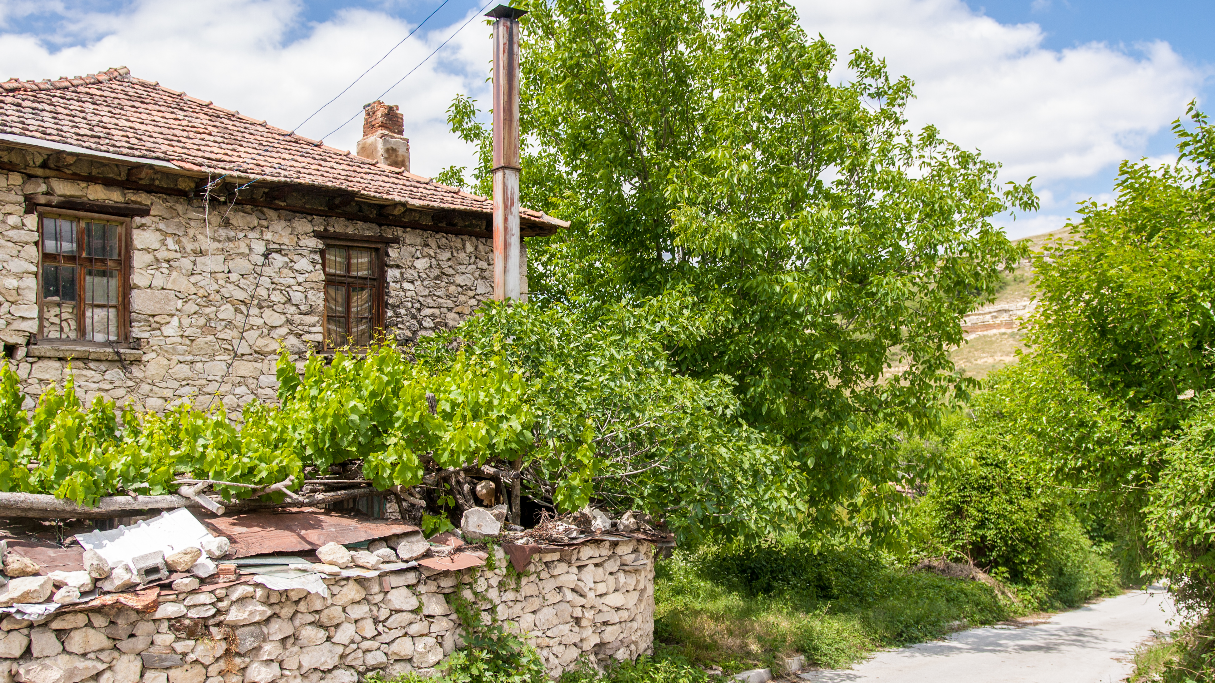 Old traditional house in the village Manastir